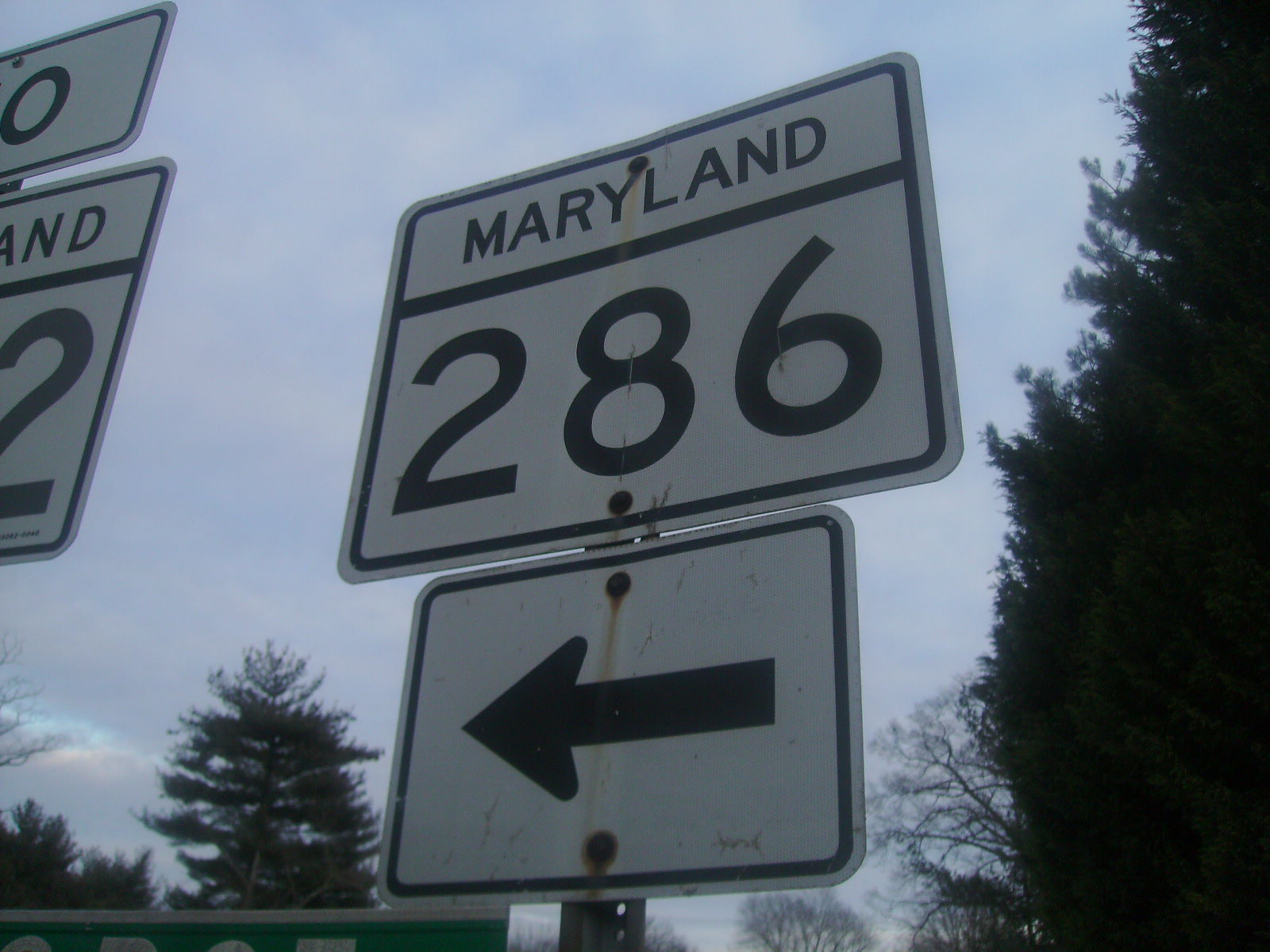 Maryland Route 286 shield in Chesapeake City off of MD 213.